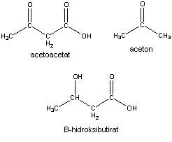 Ketone bodies translated to Slovenian.